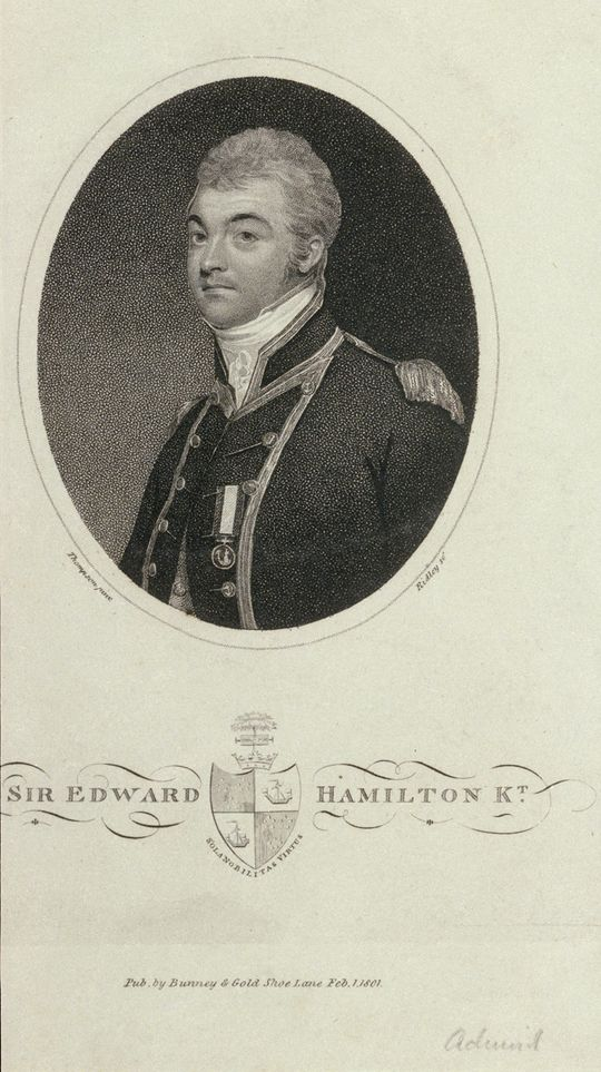 Engraving of Sir Edward Hamilton Kt